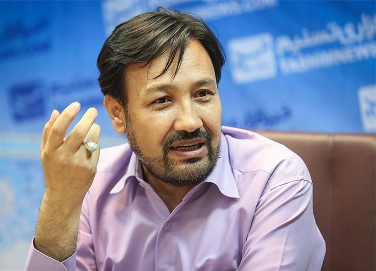 Sayed Abutalib Mozaffari